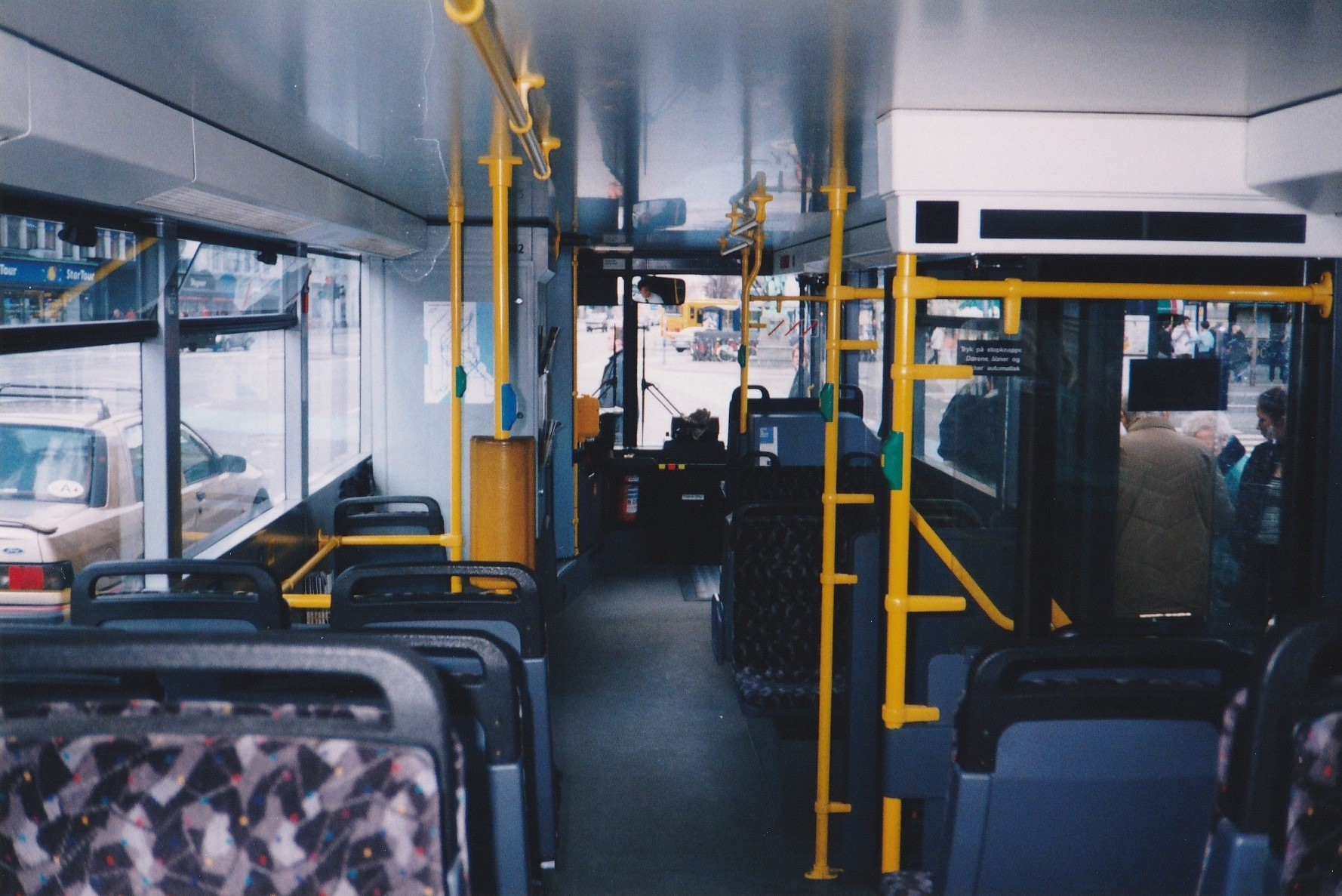 Test with double-decker bus BVG 3042 from Berlin on HT bus line 250S at Rådhuspladsen in Copenhagen.